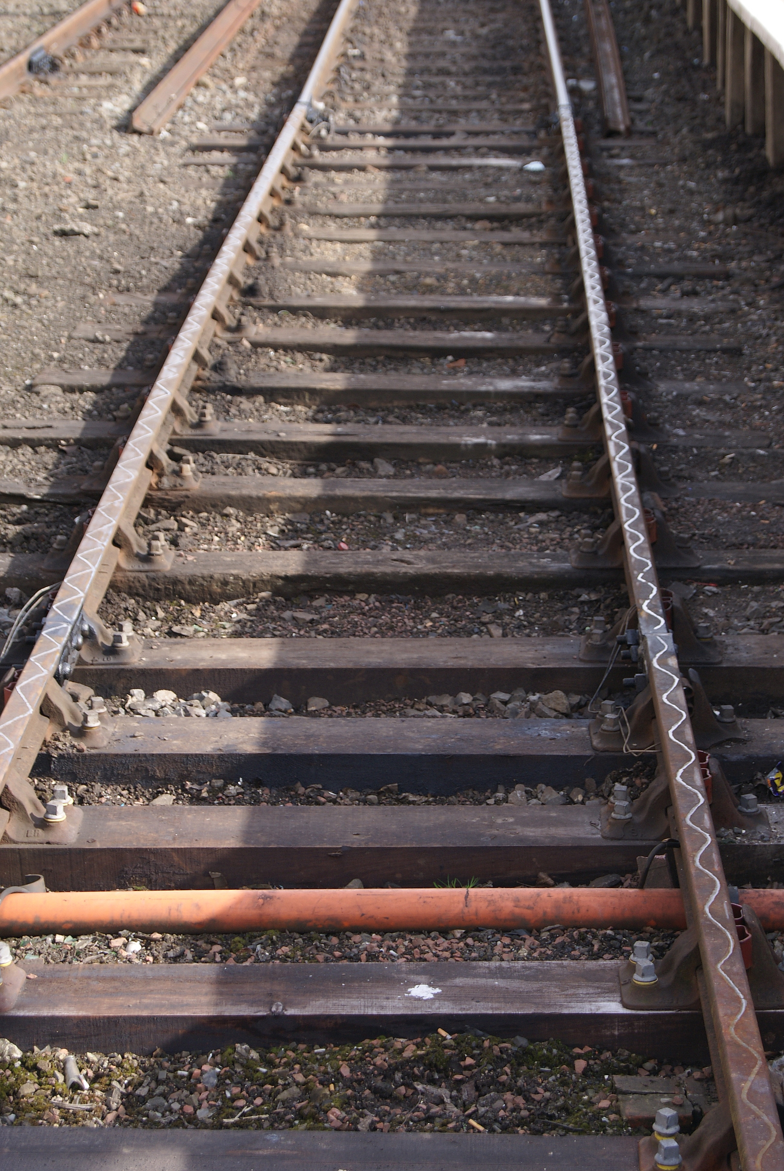 Tracks at Springburn station A "rumble strip" has been welded to the top surface of the tracks at Platforms 3 and 4 for the last 50 metres or so before the buffer stops. These zig-zag patterned welds ensure a good electrical contact between the rail and wheel for track circuit purposes. Rumble strips are commonly used where the train service is insufficient to ensure that rust, detritus and contaminants do not build up on the surface of the rail and thus inhibit train detection.